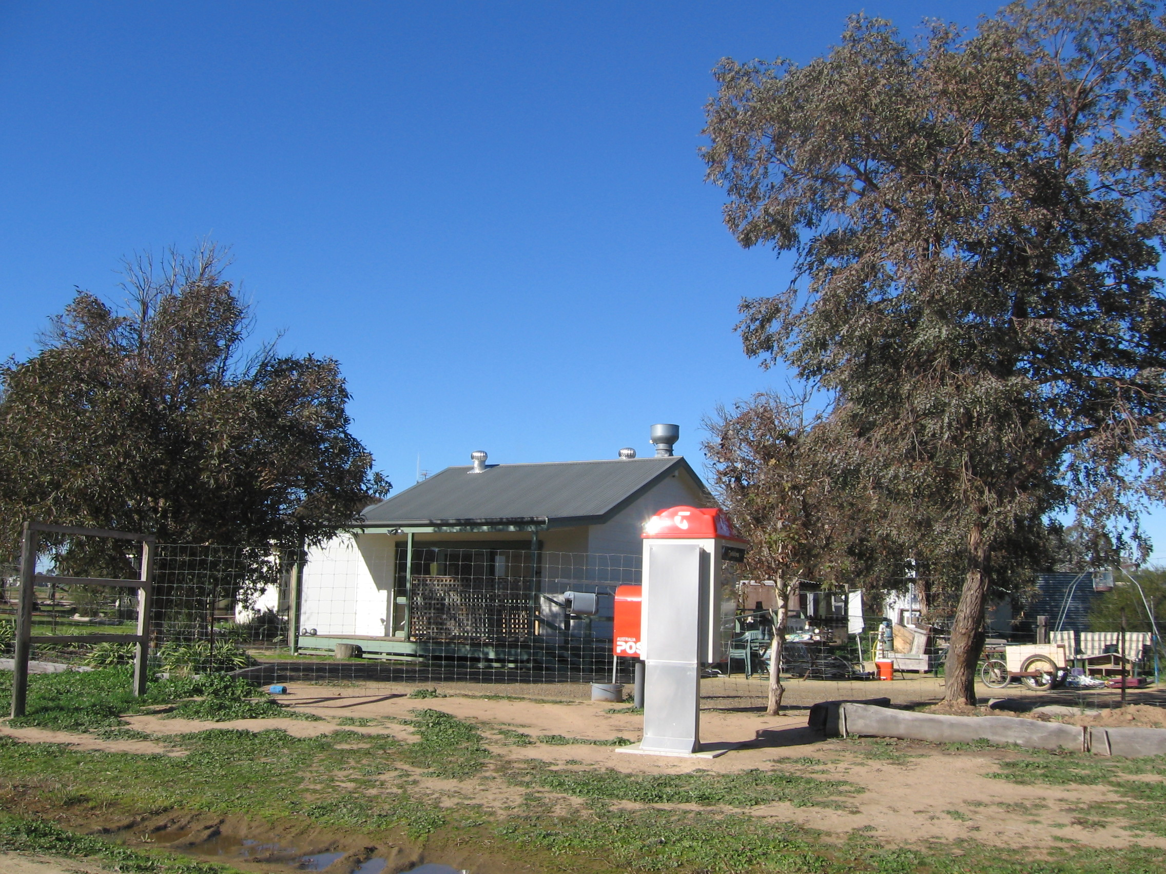 Shop (now closed) at Bearii, Victoria